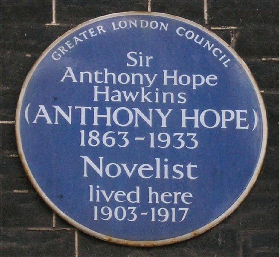 Blue plaque to Anthony Hope (Anthony Hope Hawkins) on his house in Bedford Square, London, England. Photographed by me 29 September 2006. Oosoom.